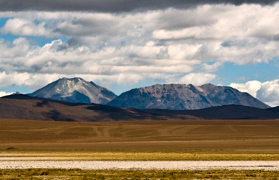 Cerro del Leon and Cerro Toconce, seen from the "Vado de Putana" bofedal